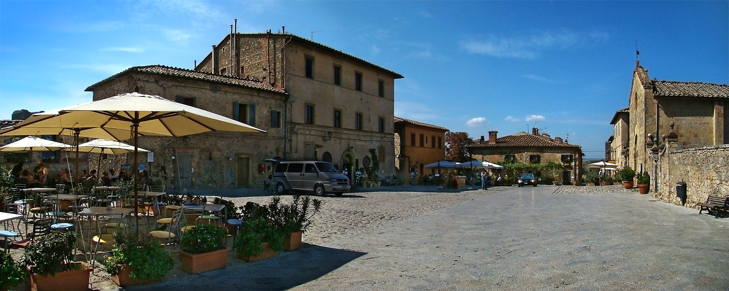 Piazza Roma, Monteriggioni, Tuscany, Italy.